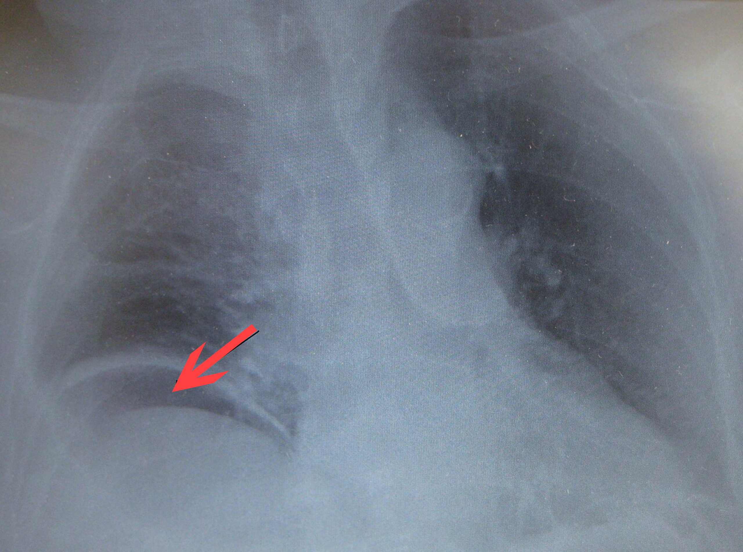 Free air under the right hemidiaphragm from a bowel perforated.